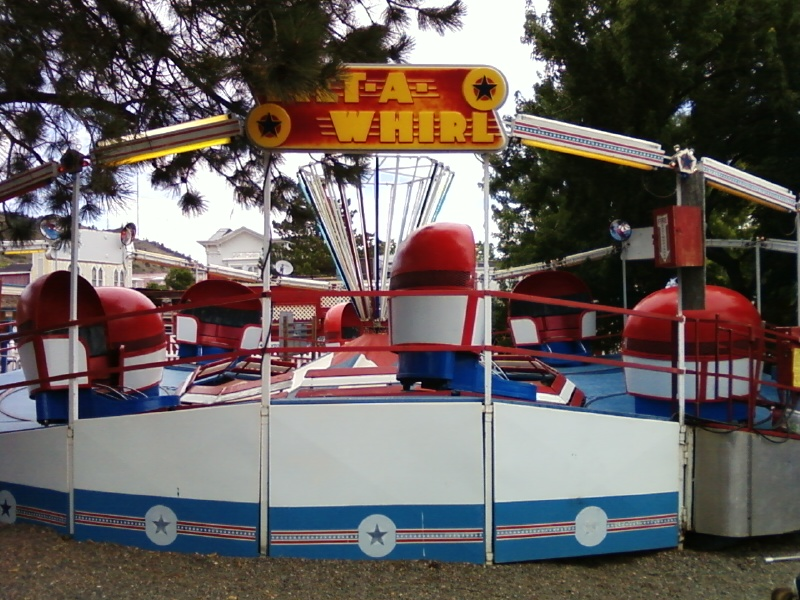 Tilt-A-Whirl at Heritage Square